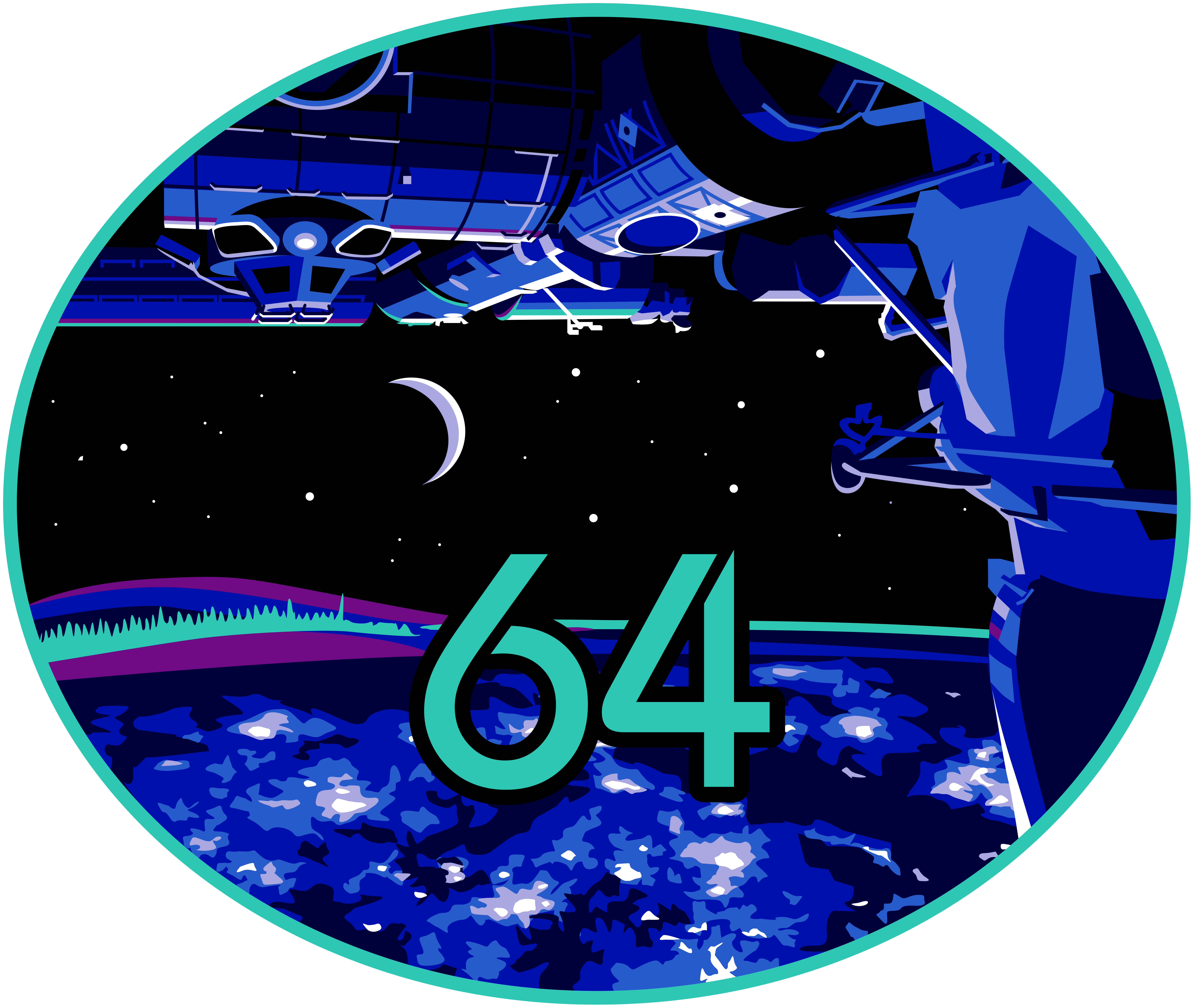 International Space Station (ISS) Expedition 64 mission insignia